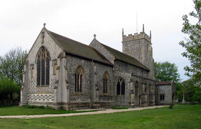 Church "All Saints" near to Burnham Thorpe, Norfolk, Great Britain